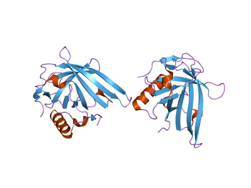 Cartoon representation of the molecular structure of protein registered with 1qwd code.